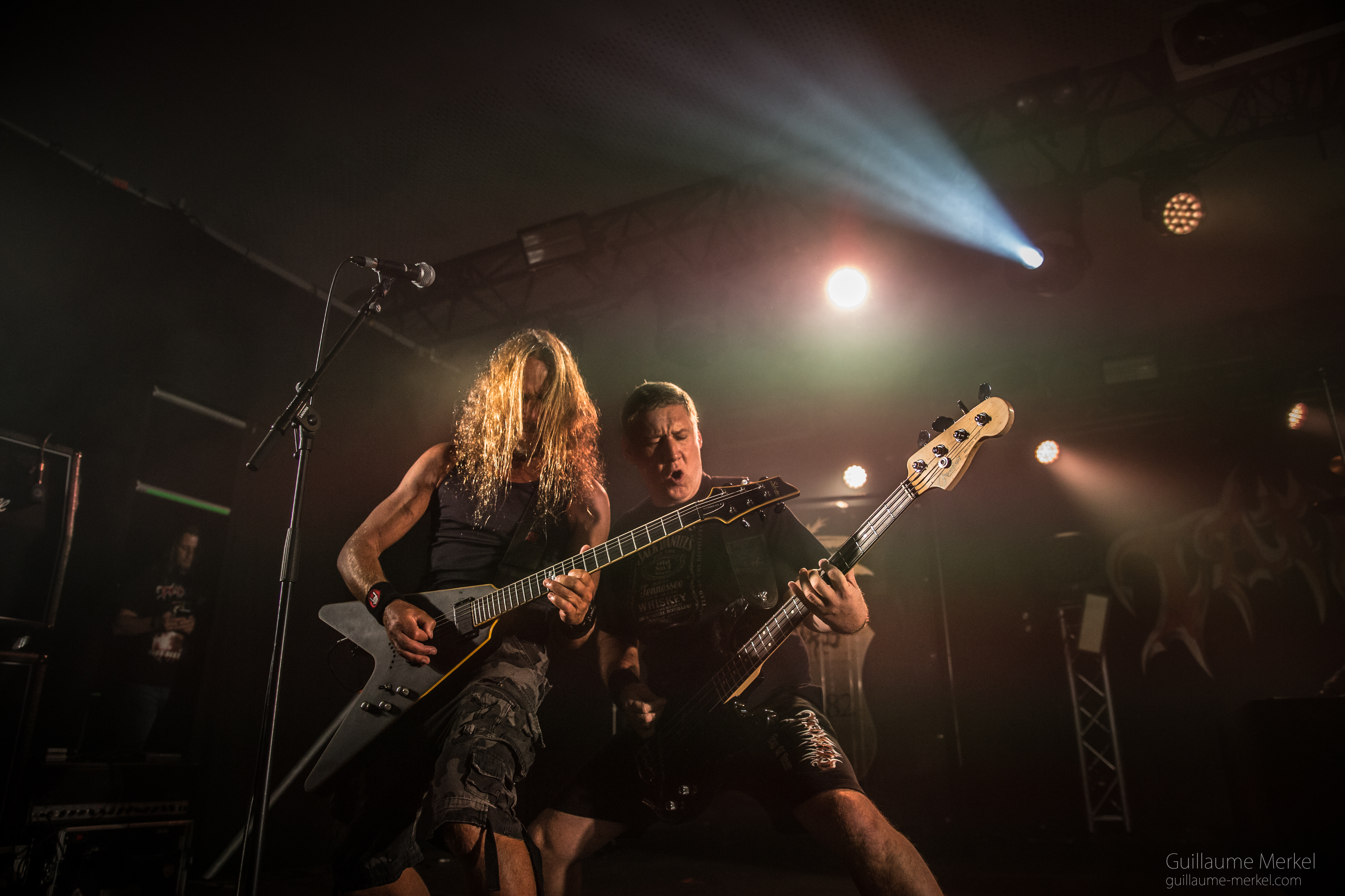 Tankard in Selestat - 2017